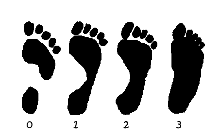 Footprint with Flat feet